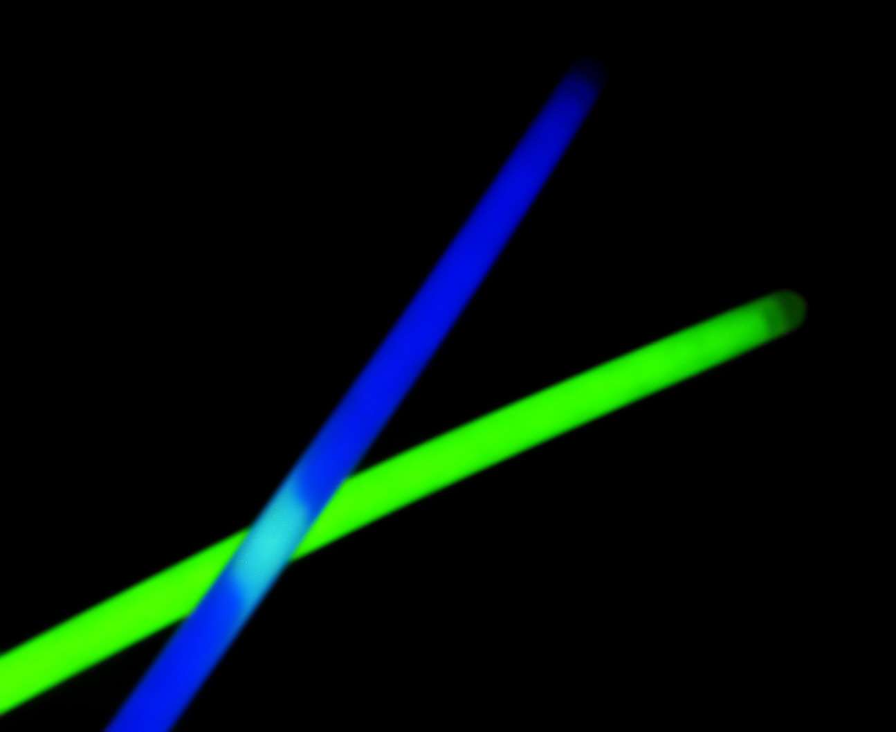 A green and a blue Lightstick.